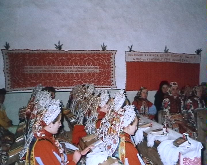 Hungarian women and girls in the church, Easter, 1988; Viştea, Transylvania